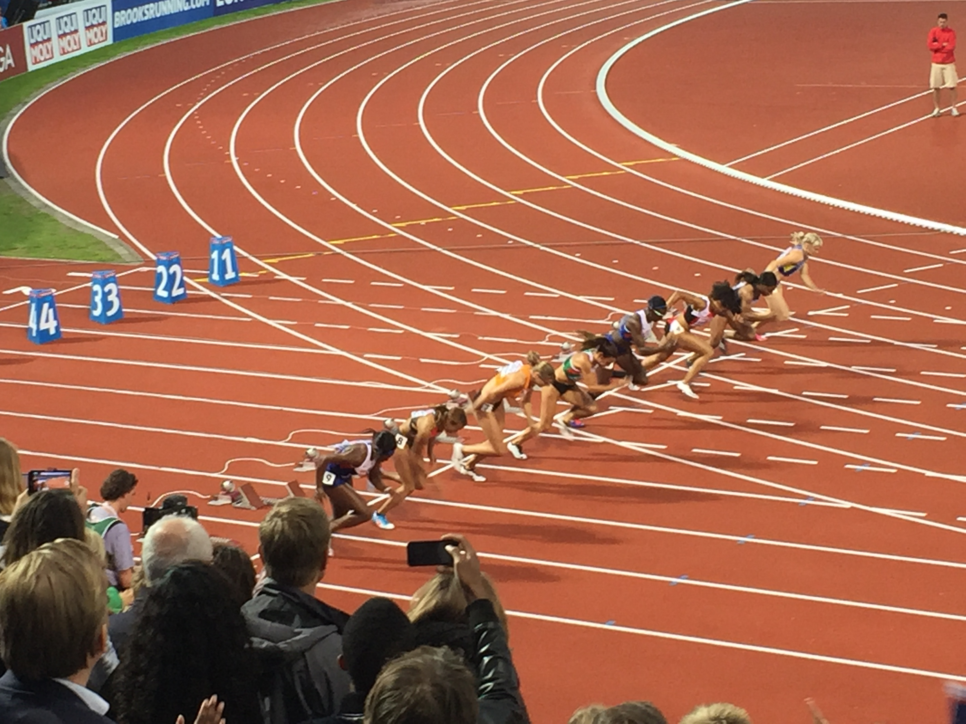 European Athletic Championships 2016 in Amsterdam - 8 July 2016 European Championships in Athletics (8 July) Schedule for this day (evening session): Hepathlon W: 18:05 Shot Put 20:00 200m Round 1: 18:15 1500m W Semi-Finals: 18:35 800m M 18:50 200m M 19:15 100m W Finals: 18:10 Hamer Throw W 19:10 Pole Vault M 19:20 Long Jump W 19:40 400m Hurdles M 19:50 400m M 20:15 Discus Throw W 20:25 400m W 20:35 200m M 20:45 10,000m M 21:25 3000m Steeplechase M 21:45 100m W